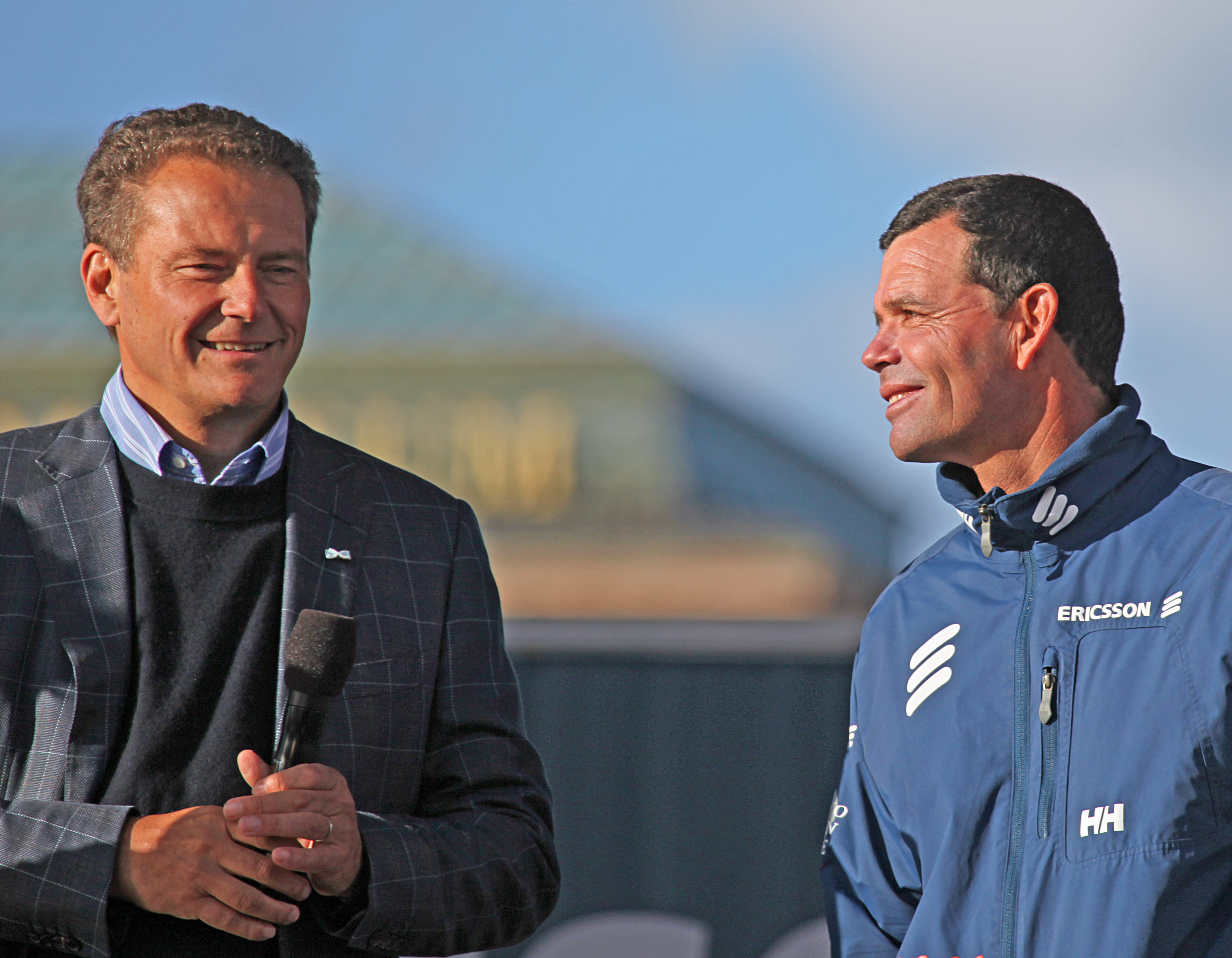 Carl-Henric Svanberg, the CEO of Ericsson, and sailer Torben Grael. Photo taken during the Volvo Ocean Race 2009.